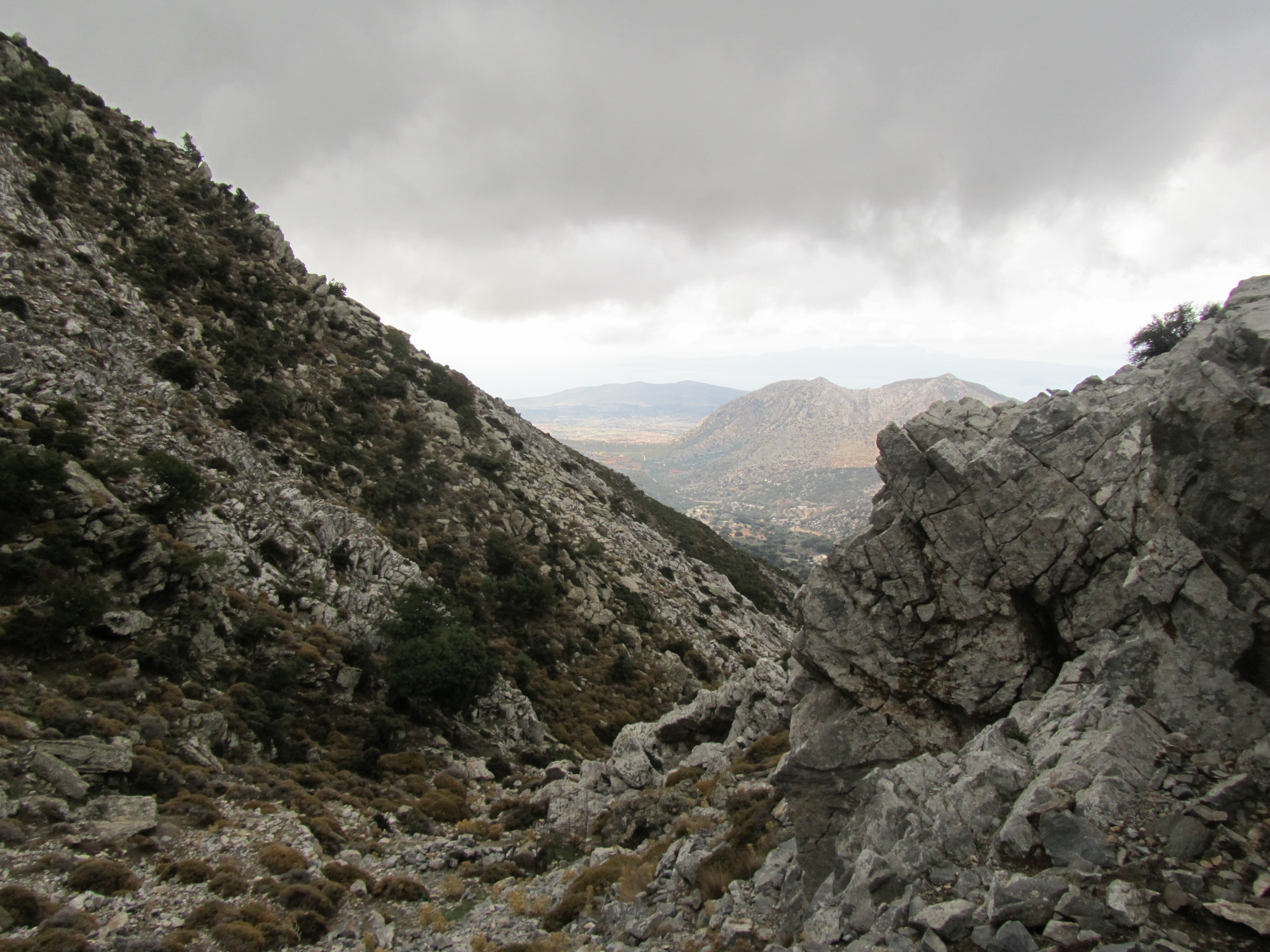 View from Zas cave, Naxos